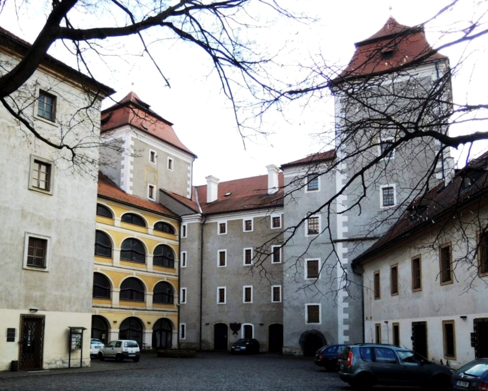 Mladá Boleslav Castle coutyard